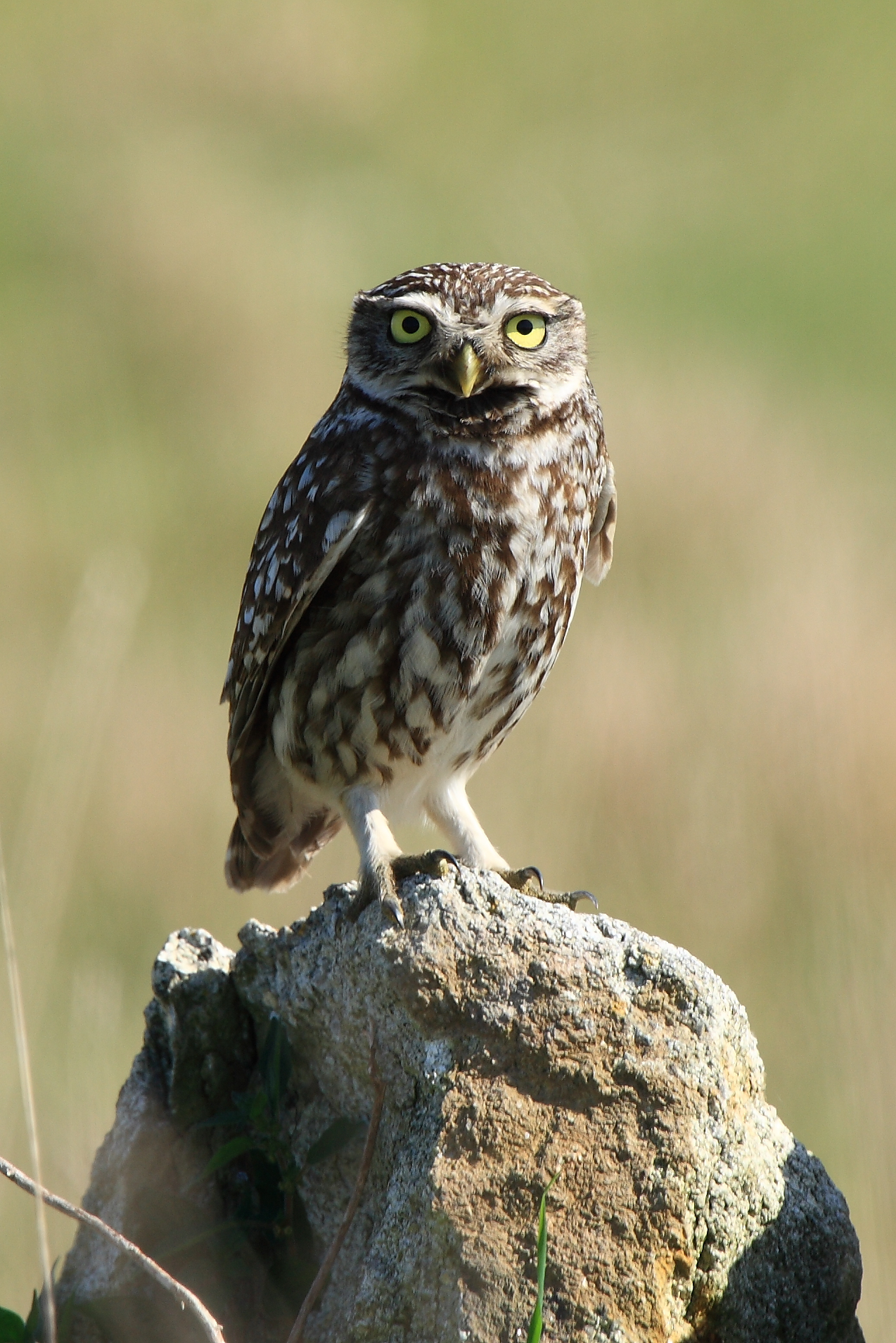 Little owl in Teira, Galicia, Spain.